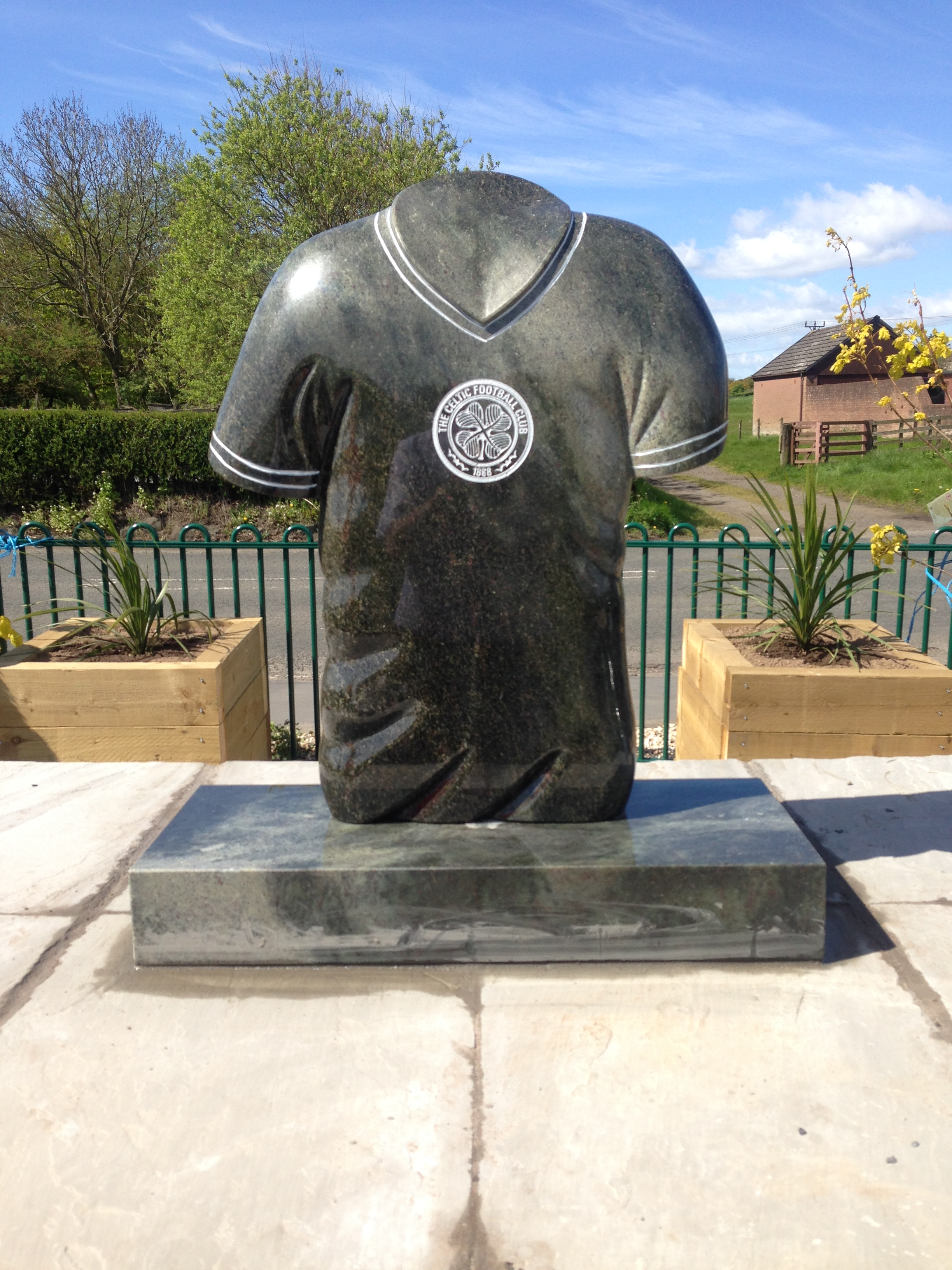 Memorial to former Celtic FC player Peter Johnstone who was killed in action during WWI.